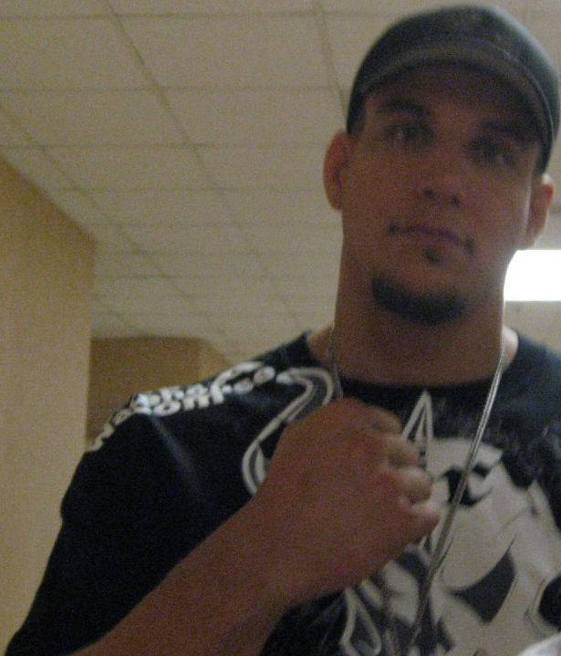 Author: Gavin Ng. Permission is on file with the WMF.